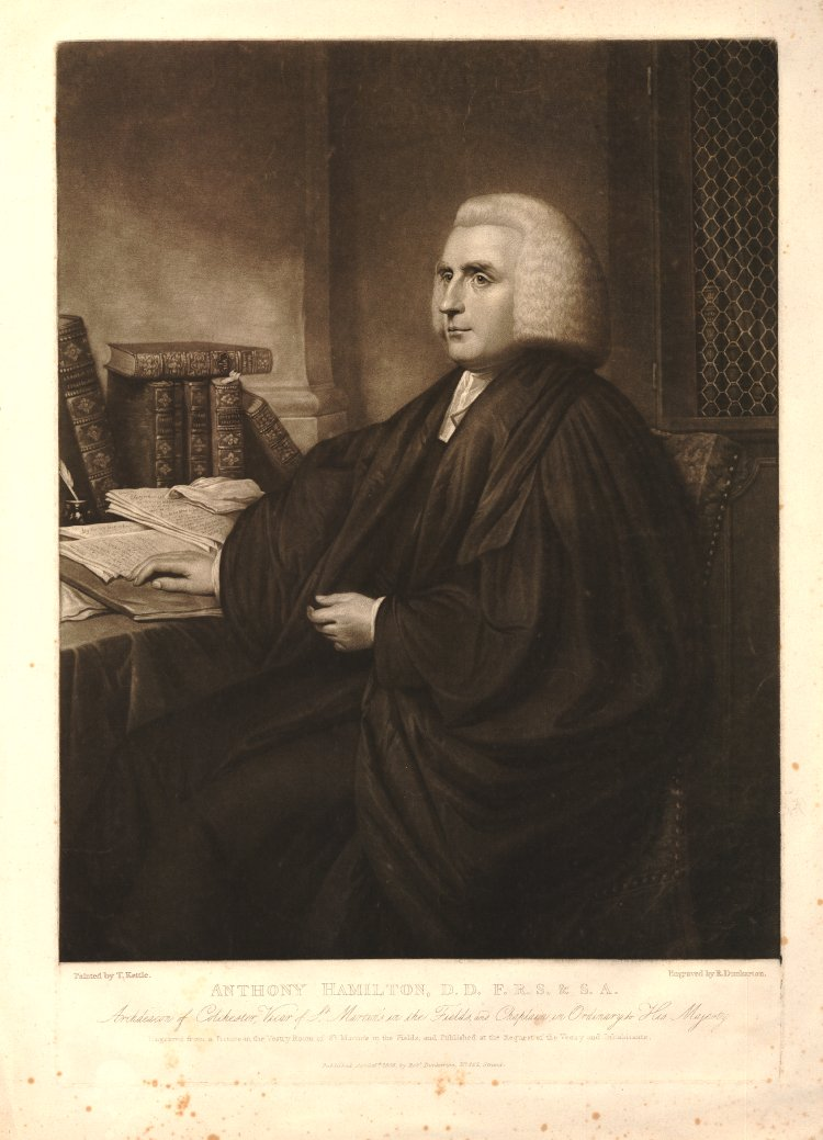 Portrait of Anthony Hamilton (1739–1812), English Archdeacon of Colchester.